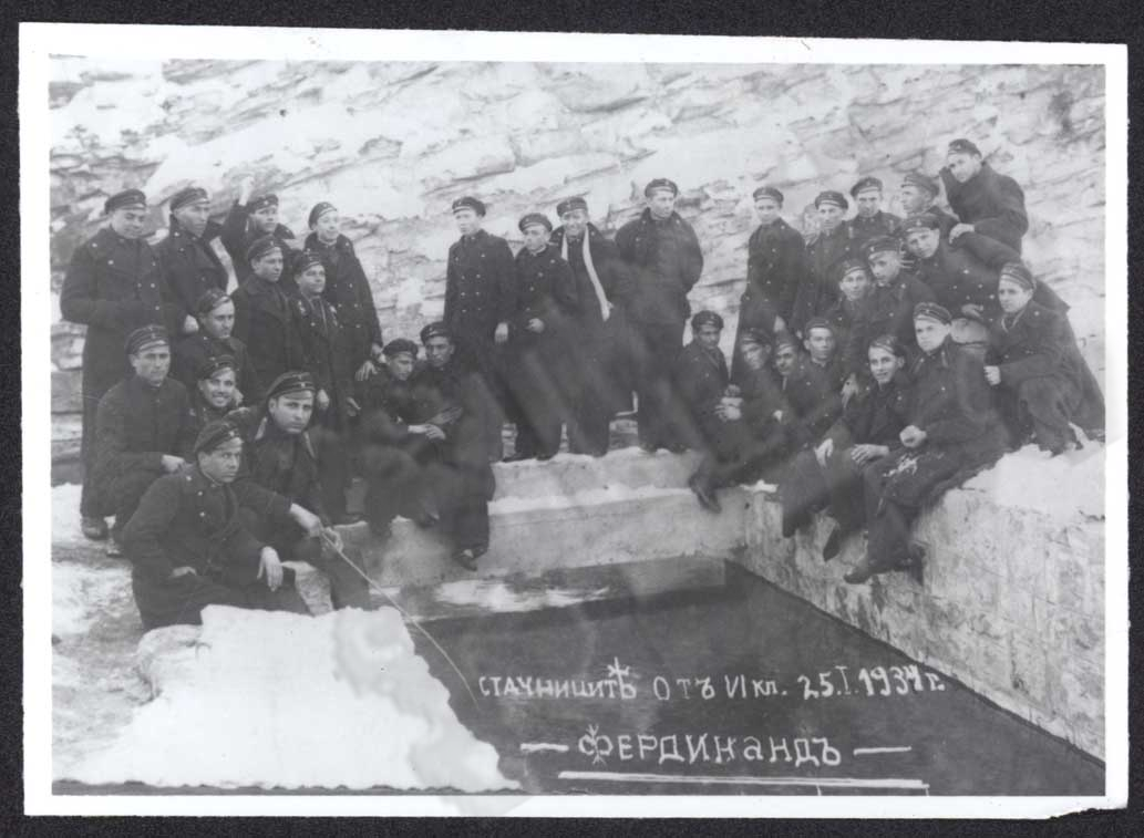 Strike of students from the Merchant High School in Ferdinand (Montana), 1934